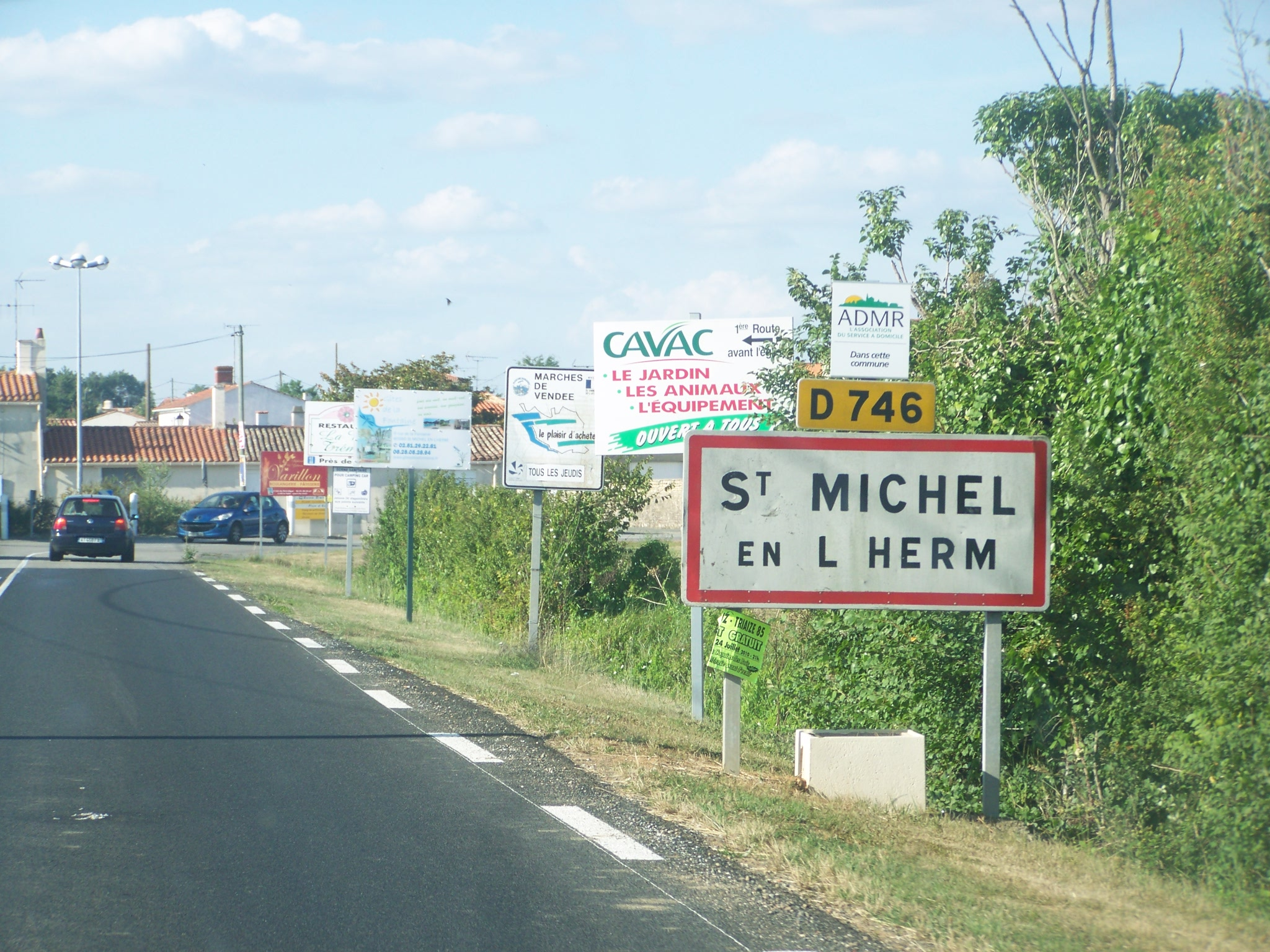 Sign welcoming visitors to the village of St-Michel en l'Herm in Vendée, France.